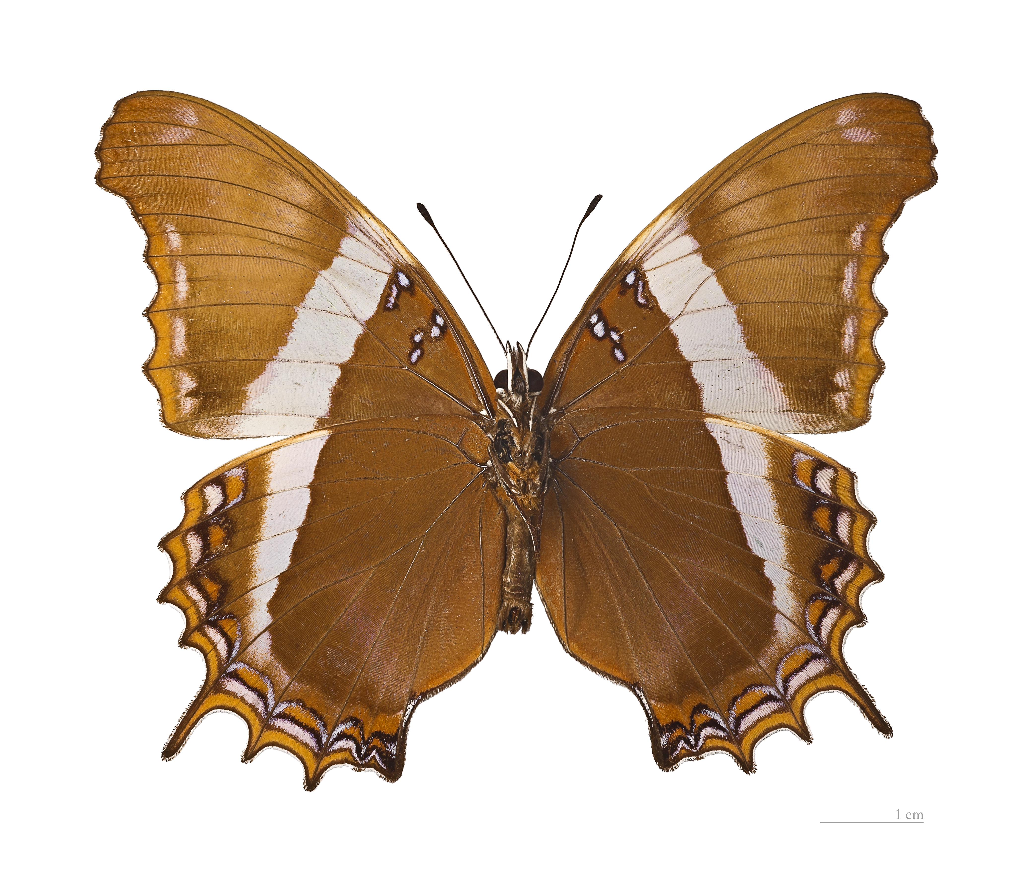 Broad-banded Page ♂ - △ Ventral side Locality: San Jerónimo, Chiapas, Mexico